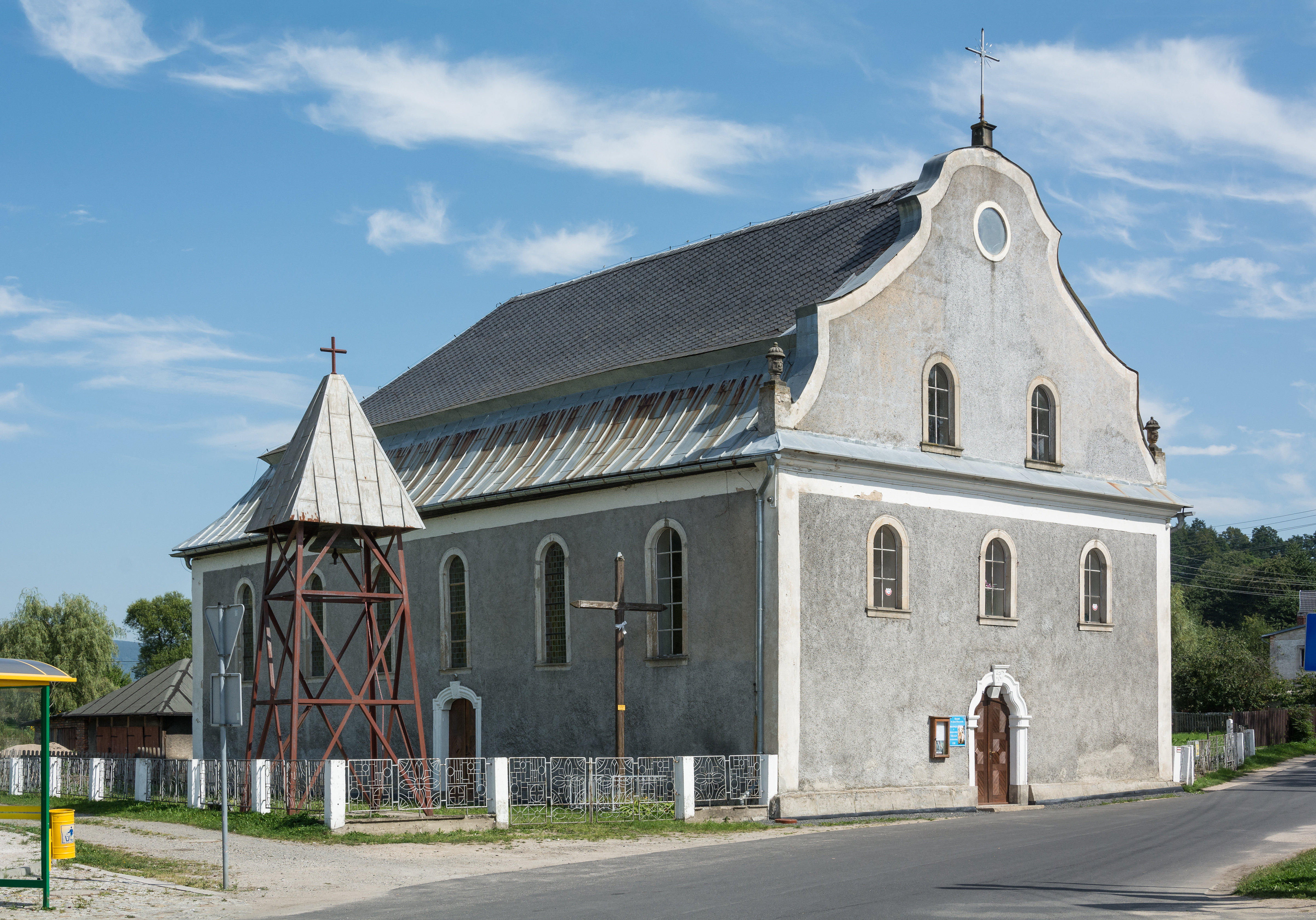 Saint John the Baptist church in Bukowiec